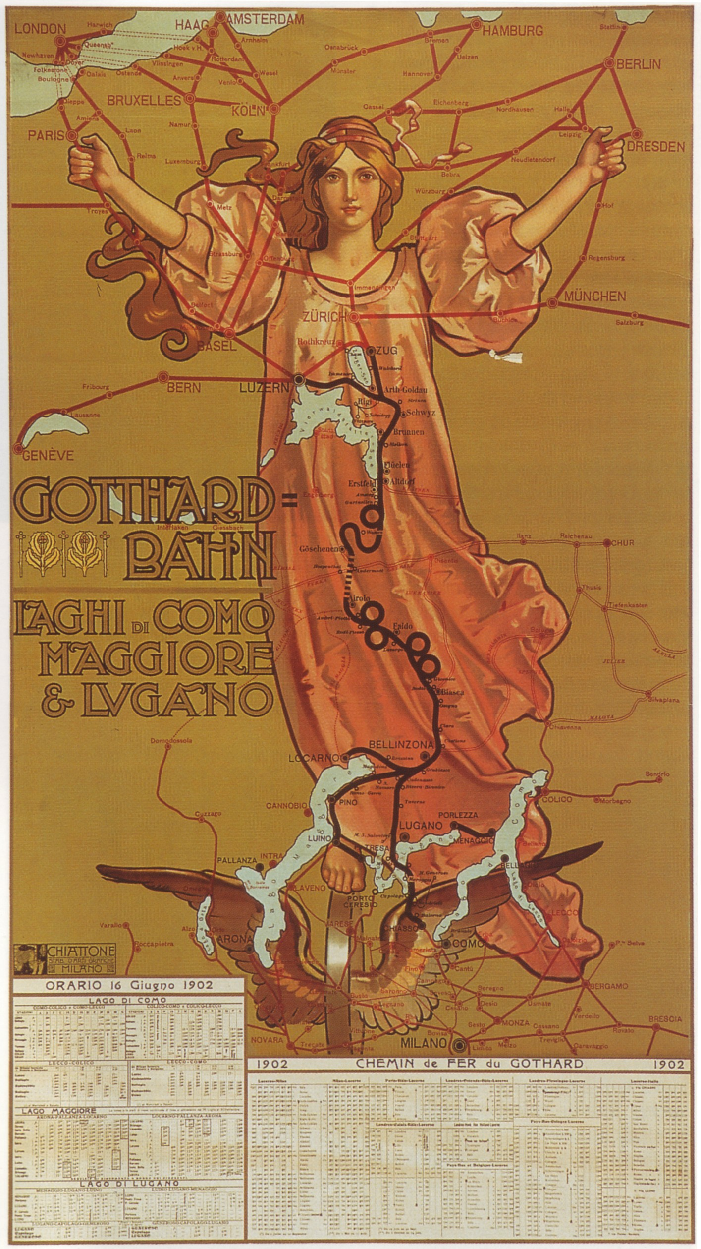 Train schedule of the Gotthard-Railway for the year 1902